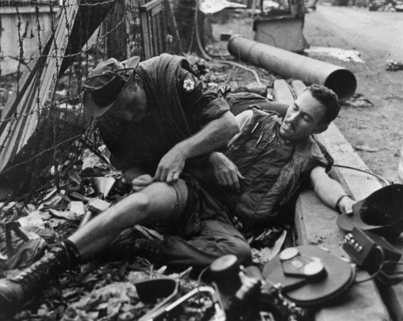 Moments after being wounded by enemy fire SFC Howard C. Breedlove (DASPO) receives medical attention from 2Lt. Richard M. Griffith (DASPO). This scene was received on Plantation Rd. in Gia Dinh, a suburb of Saigon. This action was part of what became known as the Post-Tet Offensive or the May Offensive of 1968. Several days later Lt. Griffith was also wounded.